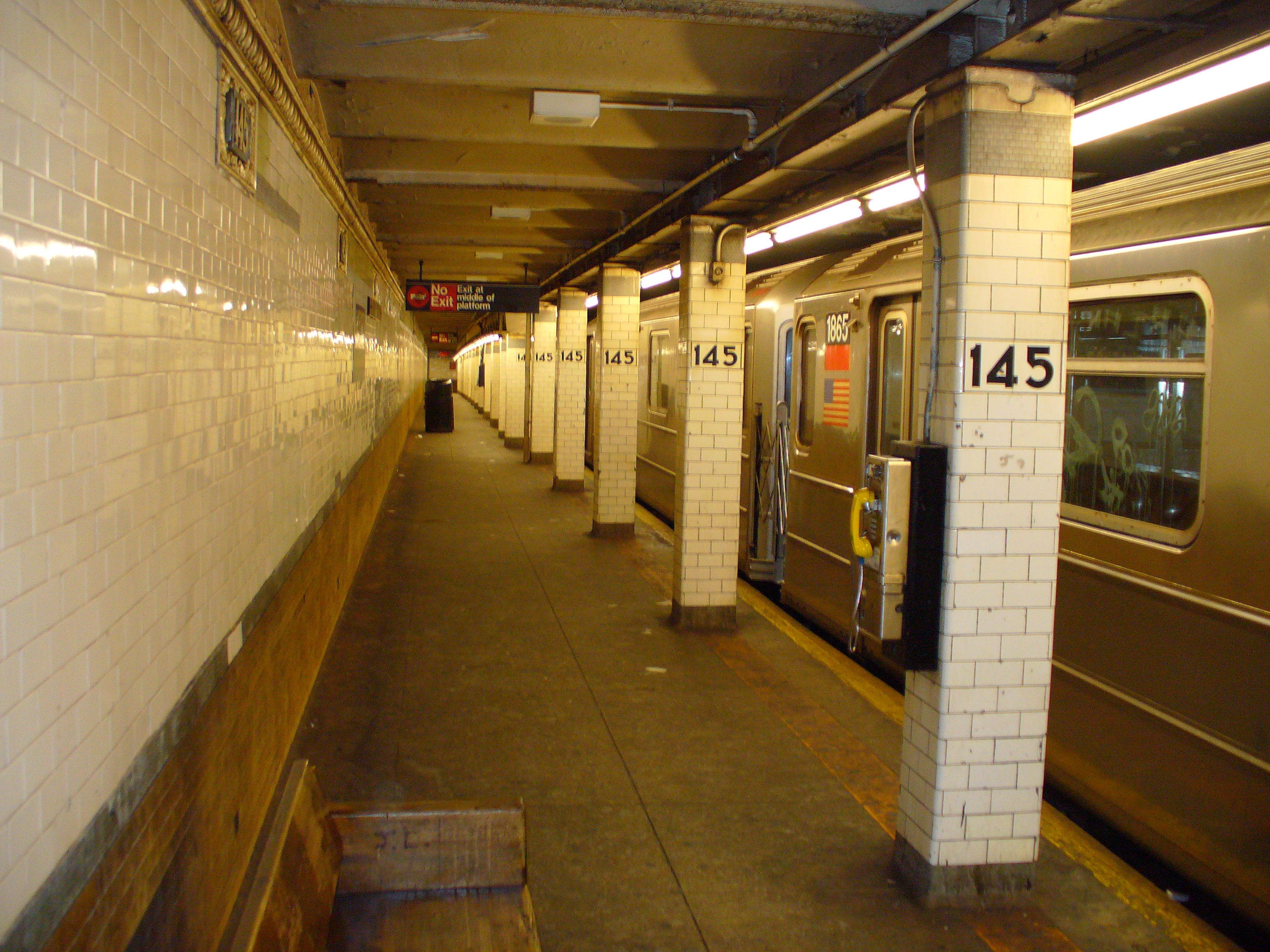 145th Street Station by David Shankbone